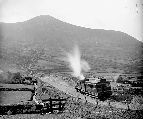 NLI Ref.: LIMP 2947